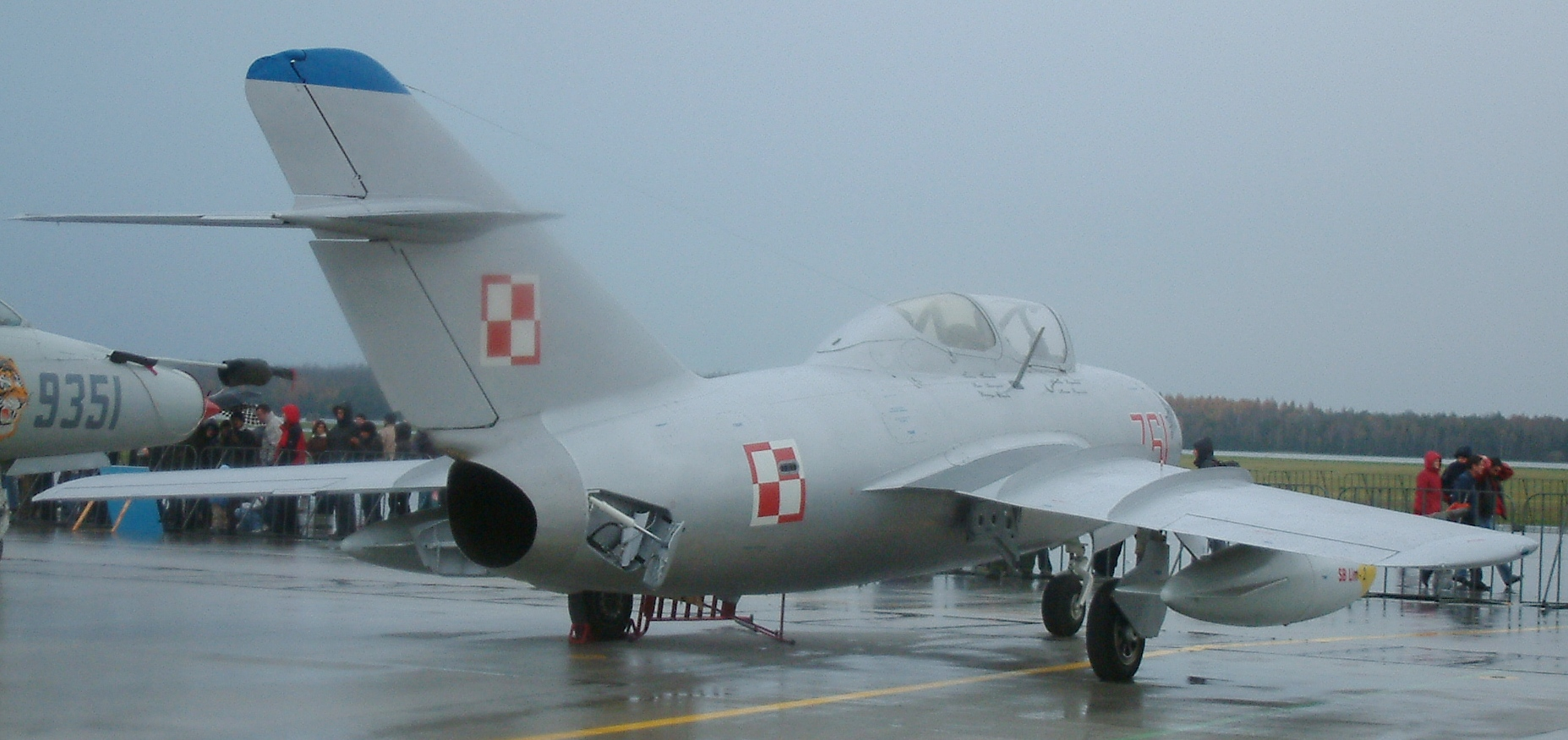 SB Lim-2 (MiG-15UTI) #761 of Polish Air Force, 31st Air Base, Poznań-Krzesiny